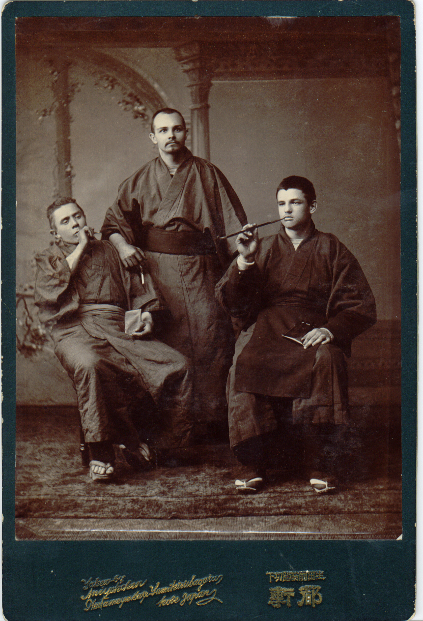 Unknown Austrian Sailors, most probably of Czech origin from SMS Kaserin Elisabeth for the moment stationned in Kobe, Japan.